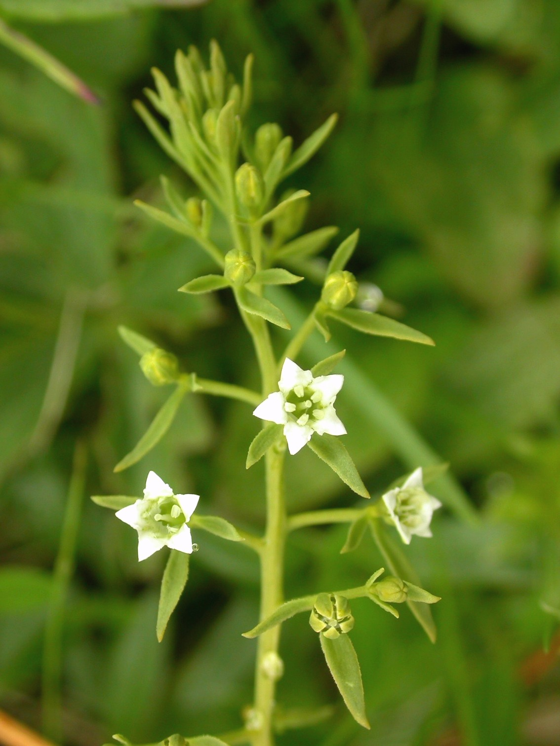 Thesium pyrenaicum, Switzerland